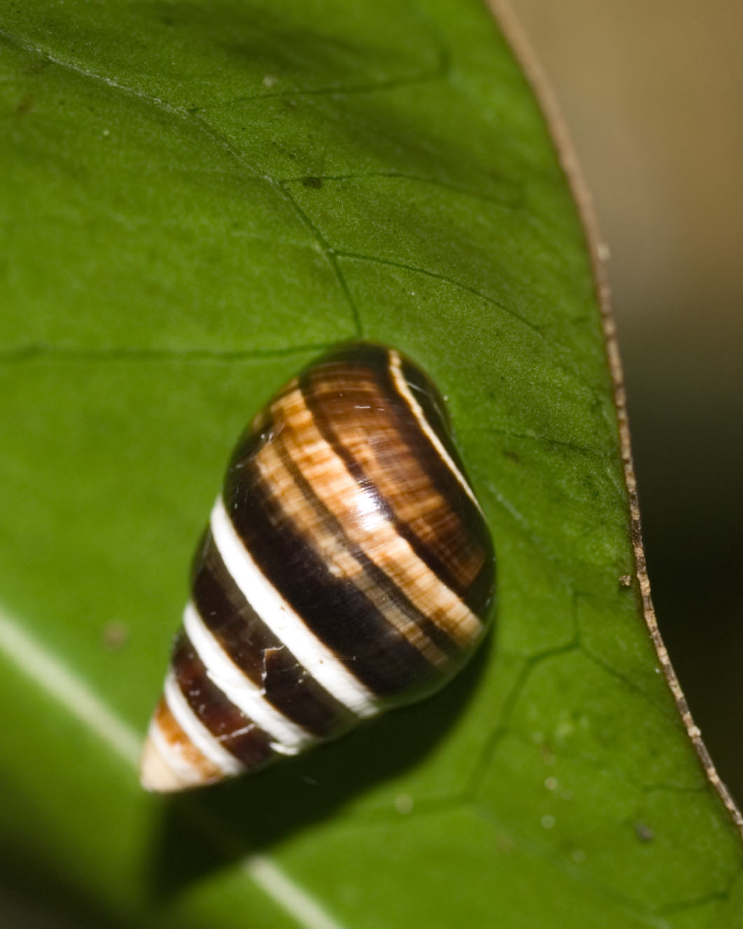 Achatinella mustelina. Locality: Puu Hapapapa, Honoulouli Reserve, UTM NAD 83, Zone 4N: 21.466555 - 158.102425.